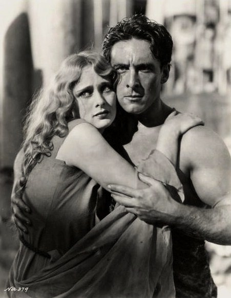 Dolores Costello and George O'Brien in Noah's Ark (1928) - publicity still (cropped : see source)